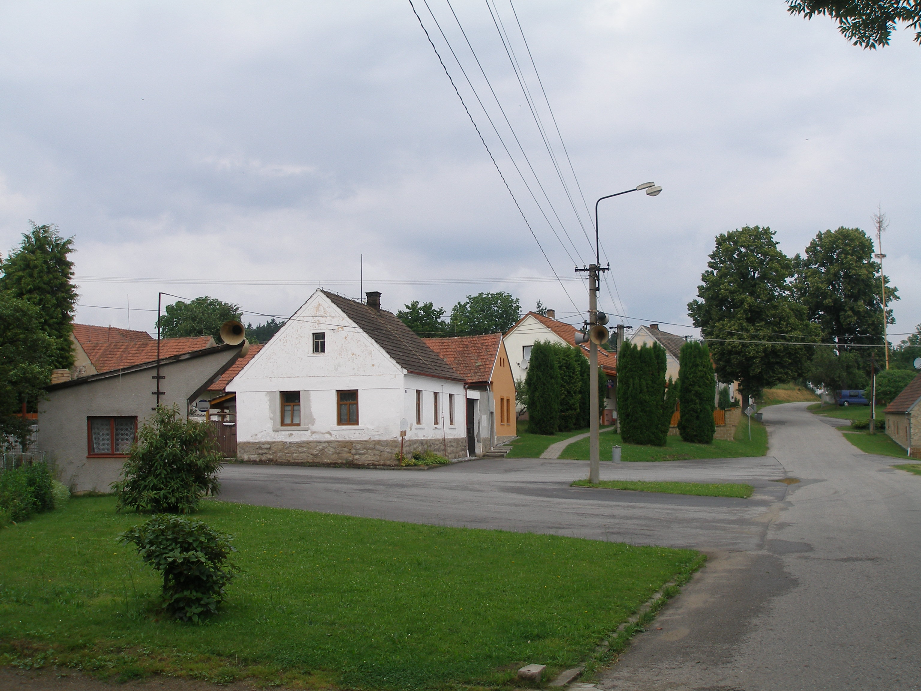 Mohuřice - the centre of the village with houses No. 21 and 4